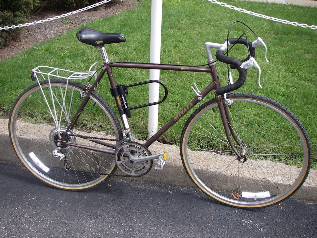 Miyata 710. Author states: "This is a photo of my own bike. I took this image. It is for public use."